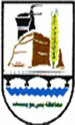 Emblem of the Beni Suef Governorate.